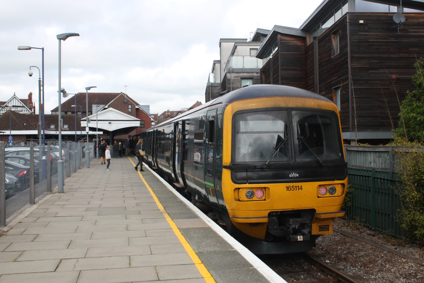 165114 is ready to Leave Henley-on-Thames with a Great Western Railway service to Twyford.